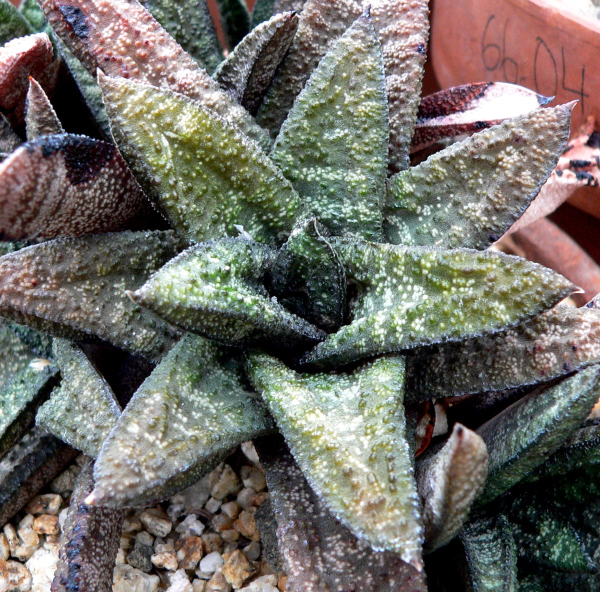 Photo of Gasteria batesiana at the University of California Botanical Garden